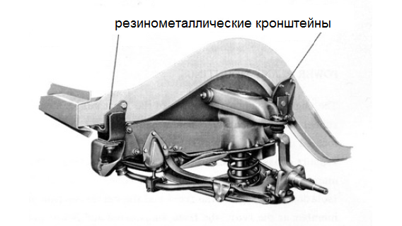 The Chrysler Turbine Car. Front suspension.